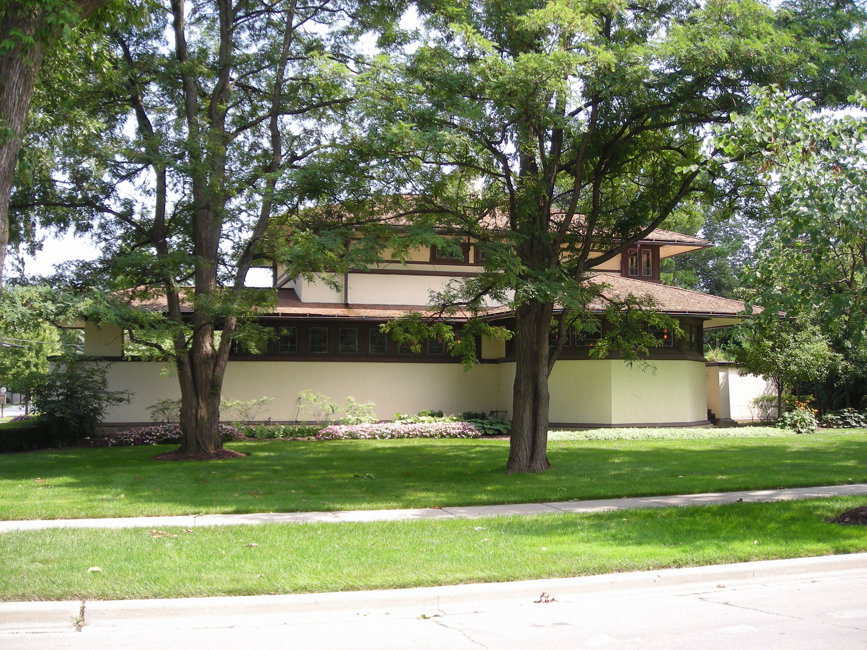 Frank B. Henderson House. Elmhurst, Illinois. National Register of Historic Places.